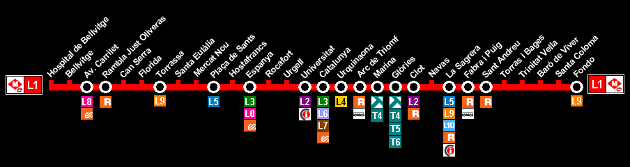 Map of Barcelona's metro line L1